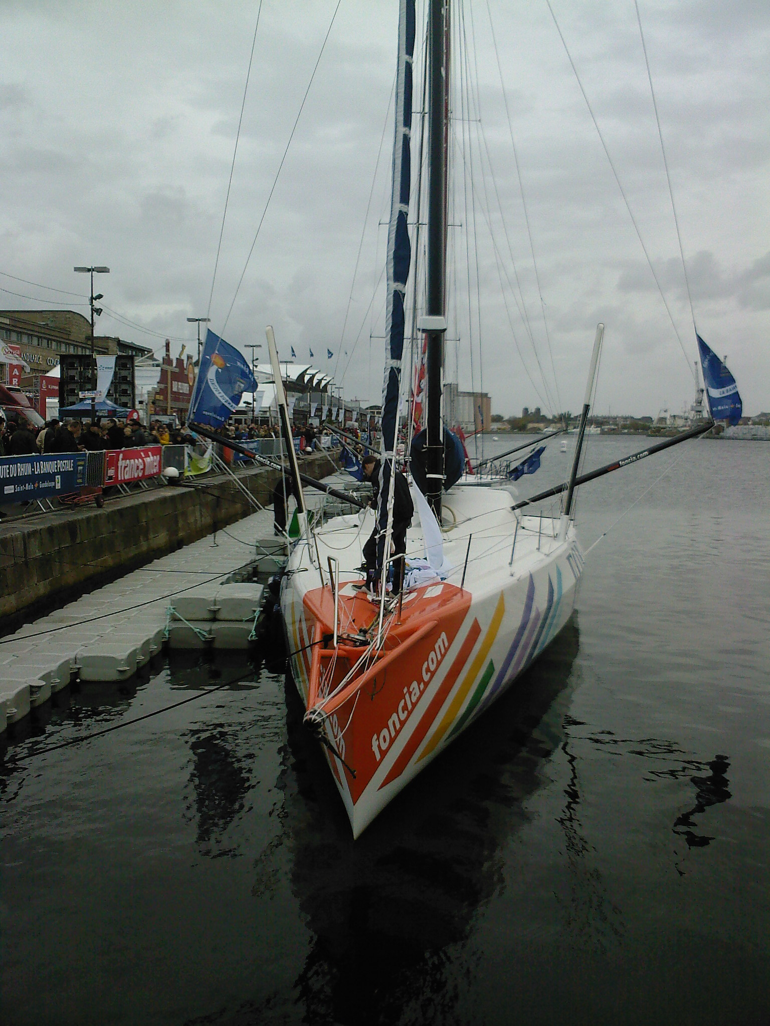 foncia by Michel Desjoyeaux at ocean race route du rhum 2010 at quay Duguain-Trouin saint malo britany france